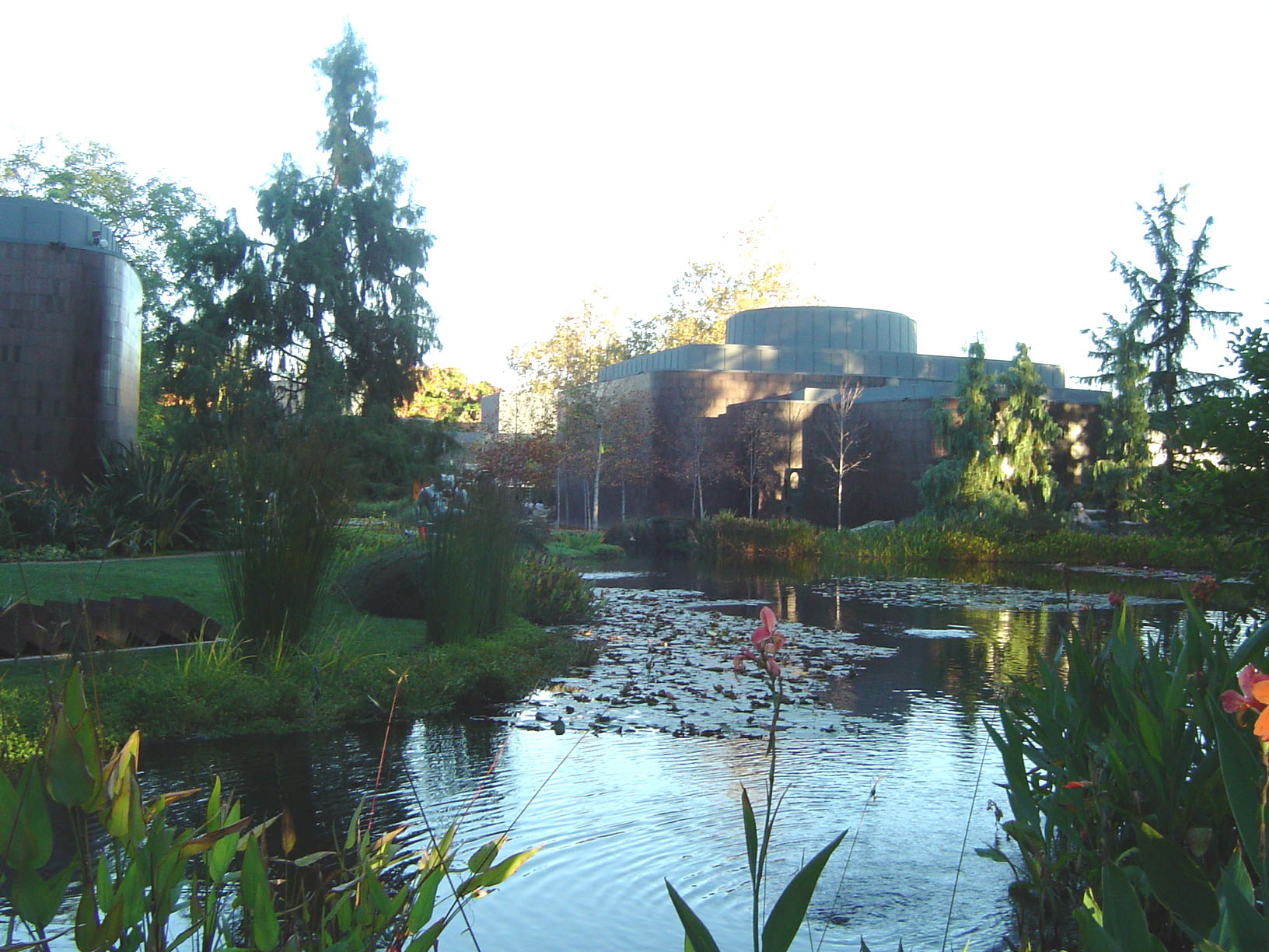 Outdoor sculptures and stroll garden at the Norton Simon Museum, Pasadena.